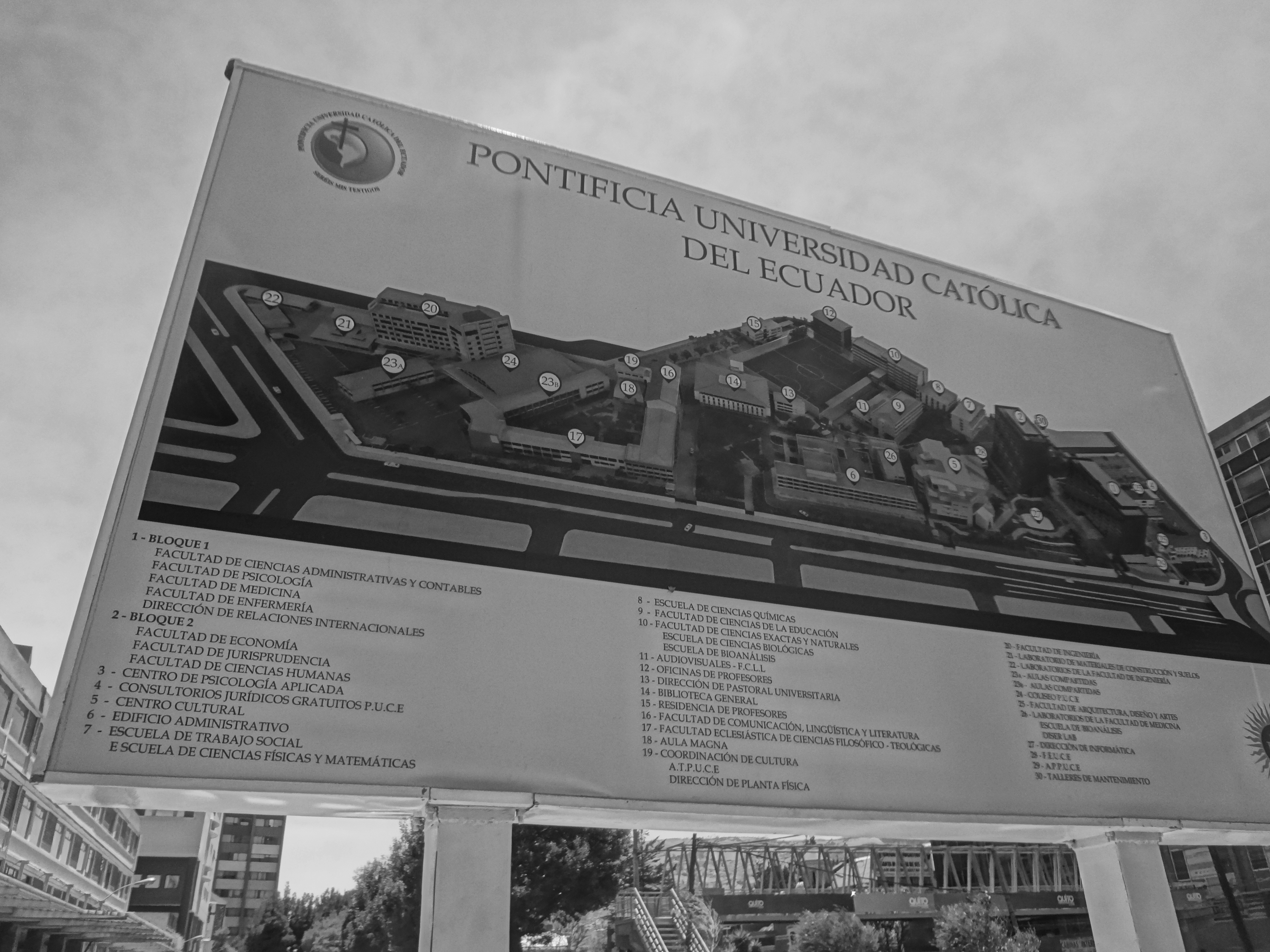 Pontificia Universidad Católica del Ecuador (campus map) Photography by David Adam Kess